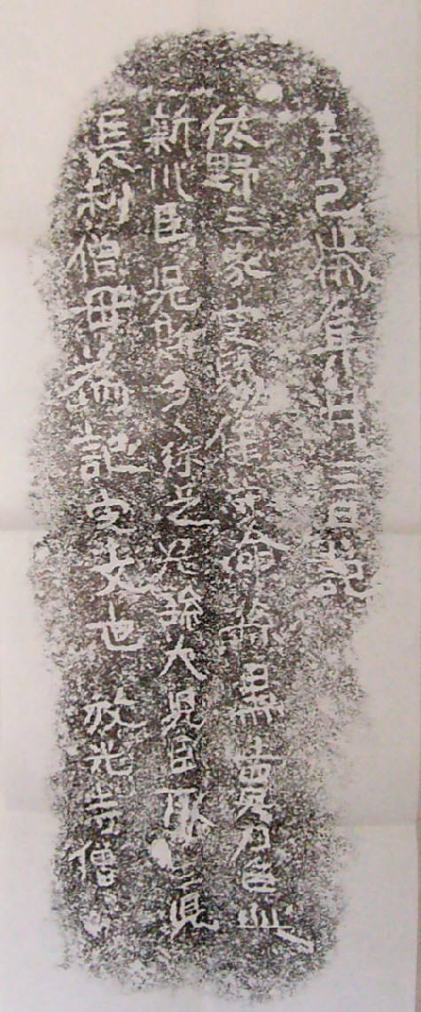 Rubbing of engraved inscription on a rock stele:YAMANOUE-stele at Takasaki, Gumma, Japan. About 1.1m height, ACE 681